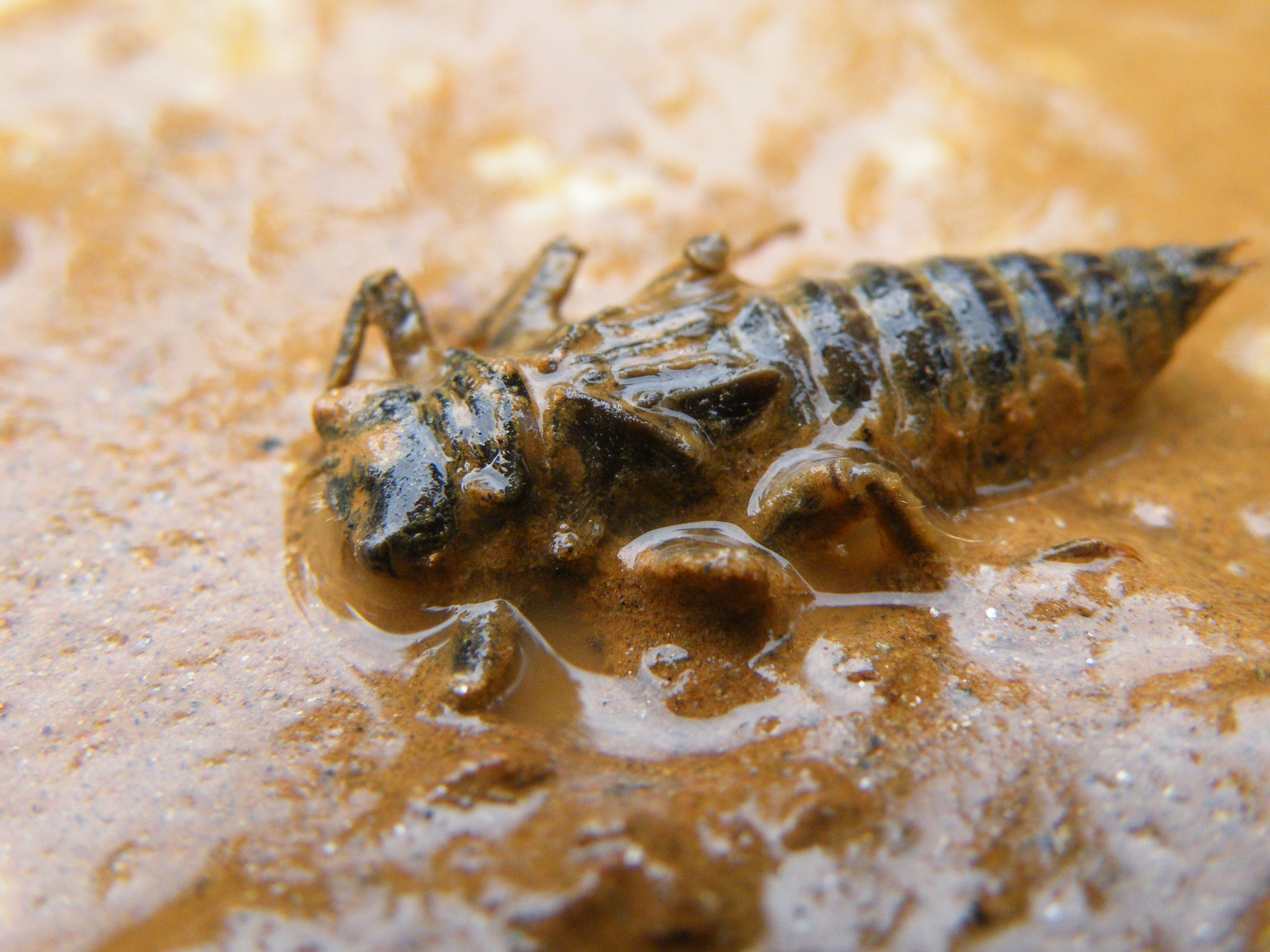 Cordulegaster heros larvae